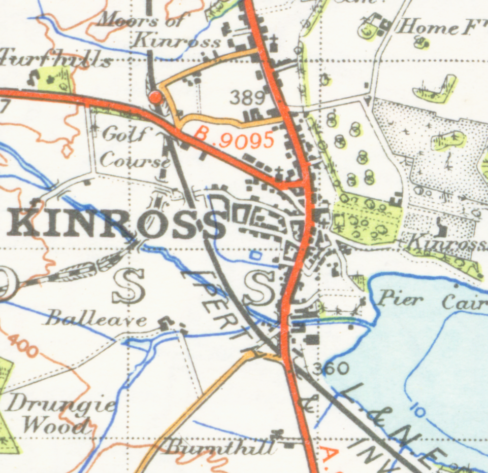 map of Kinross 1 inch to the mile scale scanned at 600 DPI